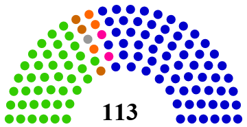 KMT (Pan Blue Coalition) 64 People First Party (Pan Blue Coalition) 3 Non-Partisan Solidarity Union (Pan Blue Coalition) 2 Independent (non-aligned) 1 Taiwan Solidarity Union (Pan Green Coalition) 3 Democratic Progressive Party (Pan Green Coalition) 40